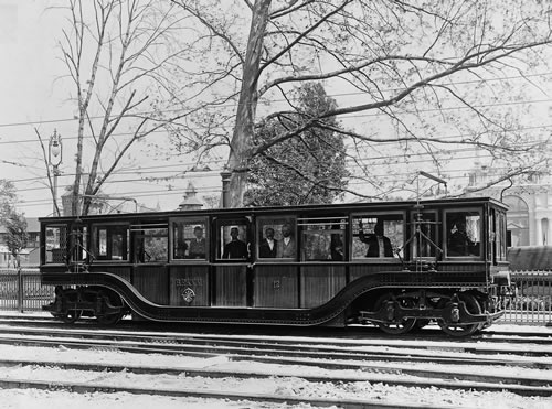 The first train type (1896)